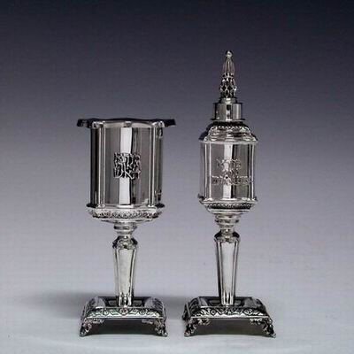 A Silver Havdalah set used in the Jewish Hadalah ceremony. This Havdalah Set was made by Hadad Silver in Israel.